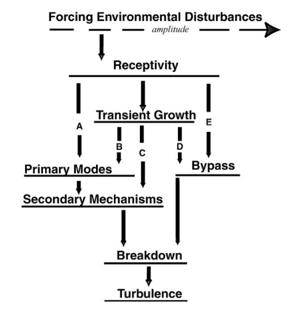 The path to transition, from receptivity to turbulence, as detailed in Morkovin, 1994